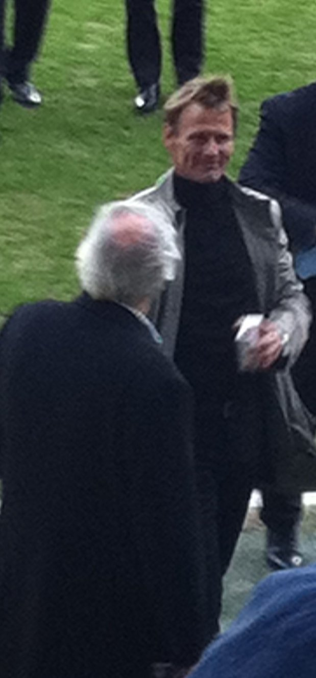 Teddy Sheringham at The Den on Dockers Day.